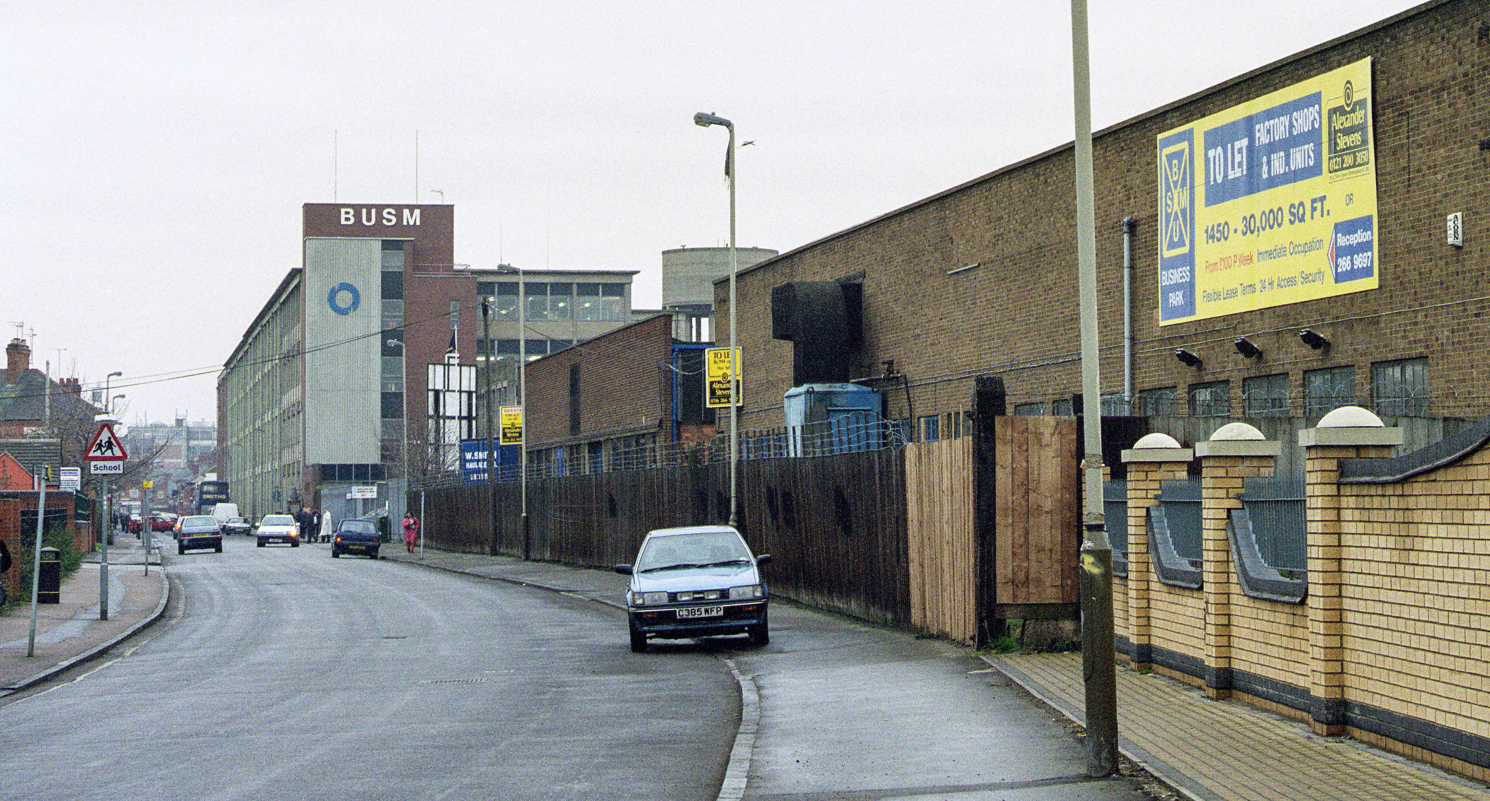 British United Shoe Machinery buildings and later main entrance, on Ross Walk, Leicester, about 2000. After BUSM vacated the buildings fronting on to Belgrave Road, the main entrance was moved to the factory building seen in the middle distance on Ross Walk. The bridge which had been across Ross Walk between the factory buildings was at the far end of the multi-story building. By this time the site had been sold to a developer and BUSM rented the buildings it needed. The single-story buildings on the right (including the steel stores and plating shop) had already been vacated and were offered 'To Let'.